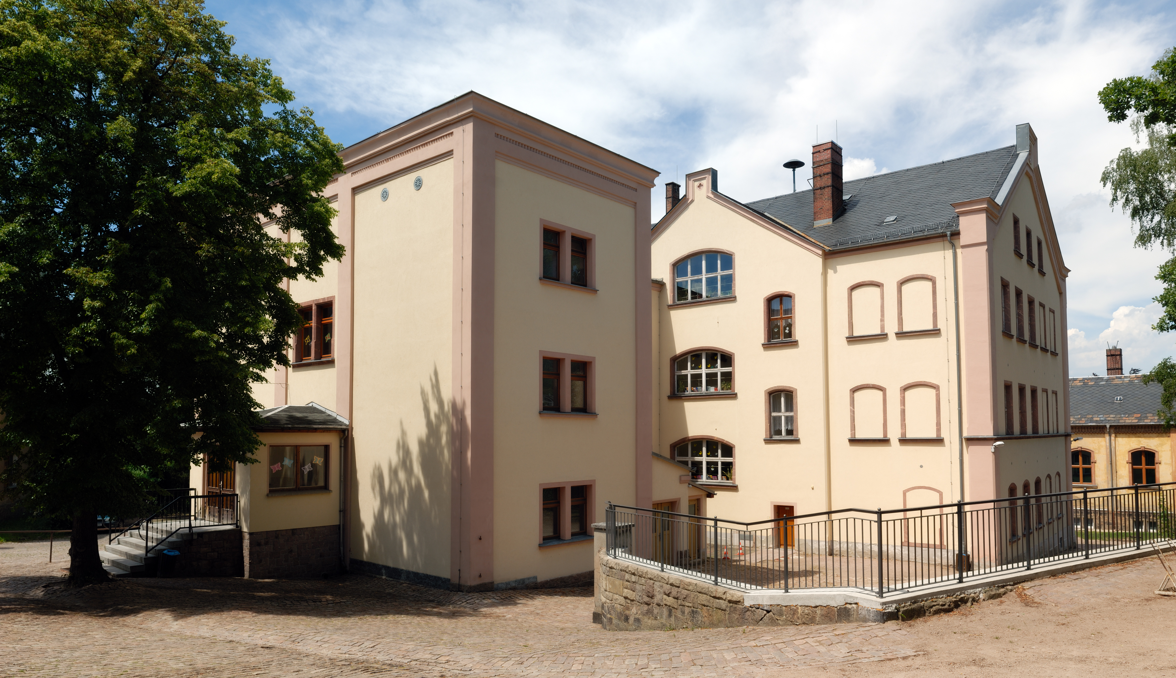 This image shows the primay school "Ernst Schneller" in Kirchberg, Saxony, Germany. It is a three segment panoramic image.